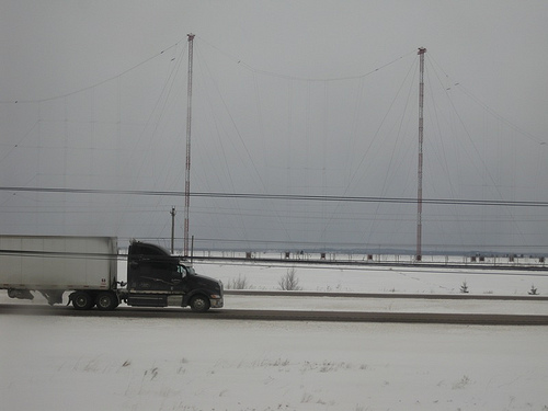 A truck on LaPlanche Street near Sackville, New Brunswick, Canada. Behind are the CBC International broadcasting towers.